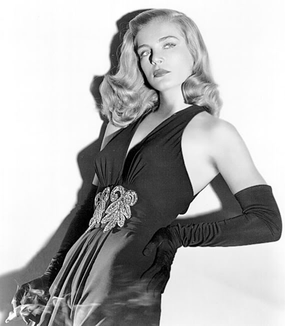 A publicity still of Lizabeth Scott in the 1947 film Dead Reckoning Other information This work is in the public domain in that it was published in the United States between 1923 and 1977 and without a copyright notice.